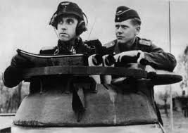 Major Karl Roßmann (23 november 1916 – 1 april 2002), Panzer Division "Hermann Göring"'s officer, with Gerhard Tschierschwitz, 1943-1944